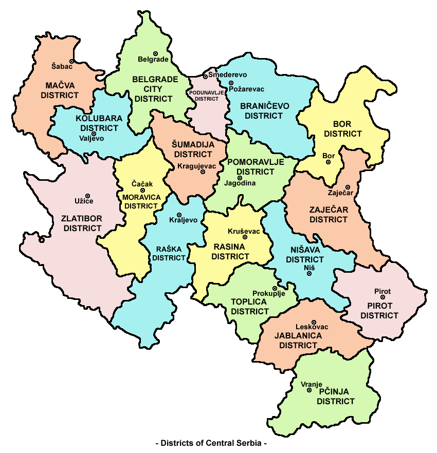 Map of districts in Central Serbia.